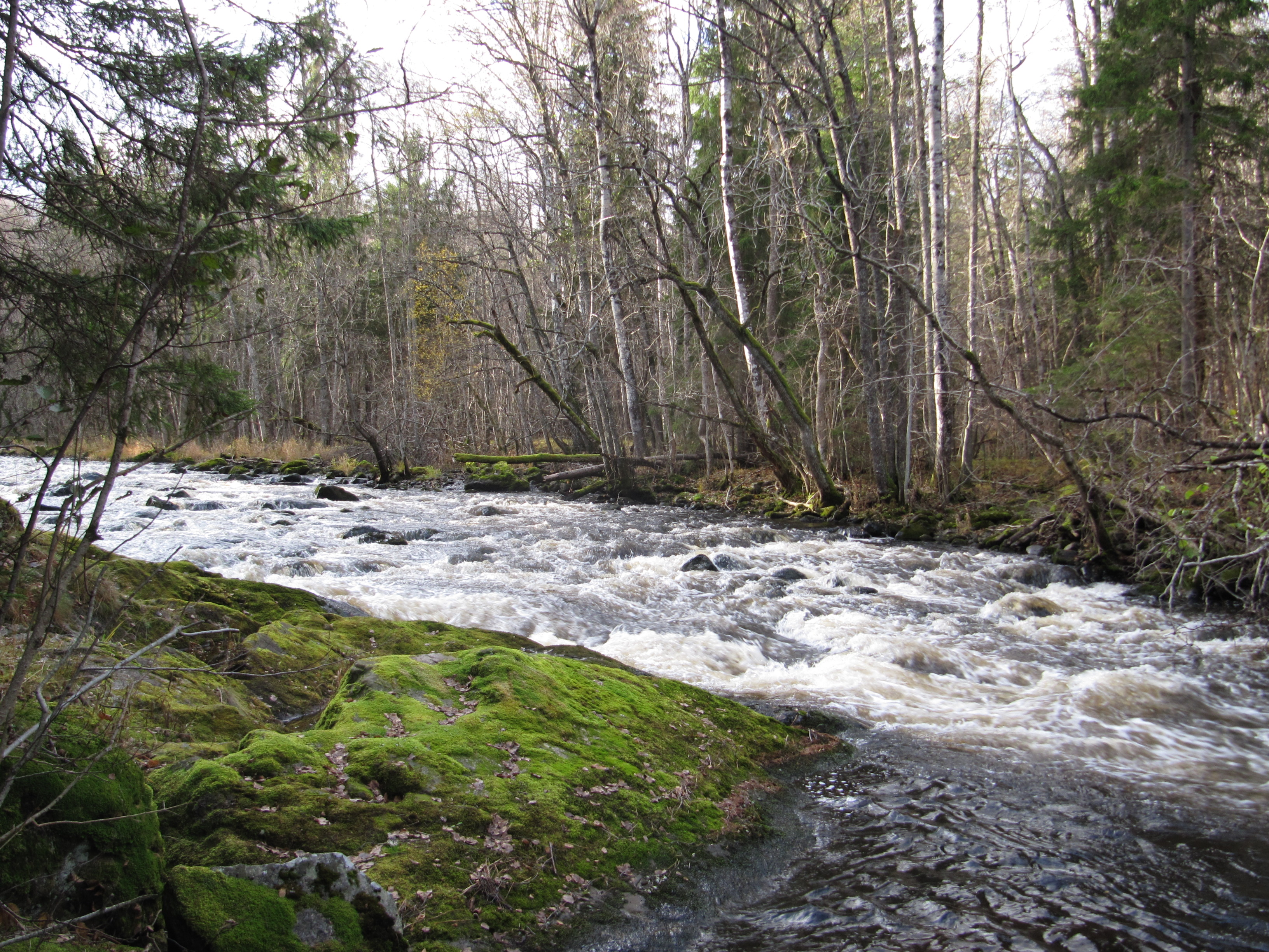 The waterfall Långforsen in Järleån, Nora, Sweden